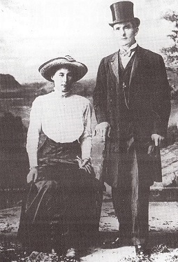 Brides in the Bath murderer George Joseph Smith and his first victim, shortly before her July 1912 murder.